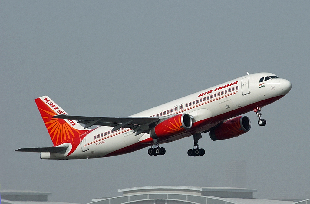 VT-ESC A320-232 of Air India taking off from Dubai on December 7, 2010.